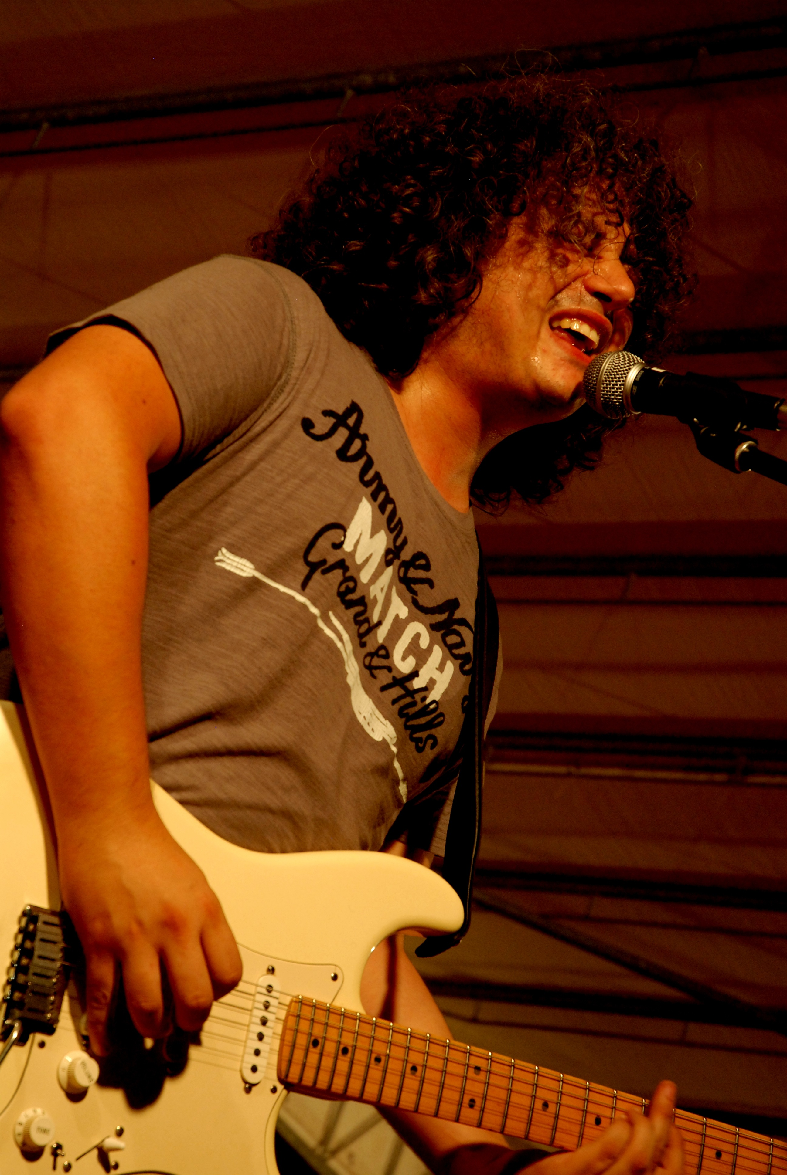 Live in Parma